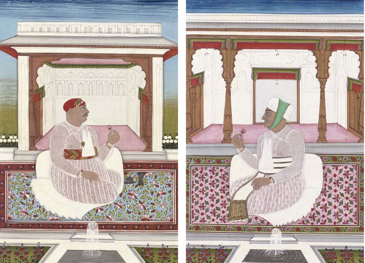 Nizam Sikandar Jah (r.1803-29), seen in two court settings "TWO PORTRAITS, Hyderabad, circa 1808-16. Gouache heightened with gold on paper, each one depicting Nizam Mir Akbar 'Ali Khan Sikandar Jah, each sitting on a carpet in a garden in front of a terrace, each trimmed to miniature and mounted. Each 8 x 5½in. (20.4 x 14.1cm.).